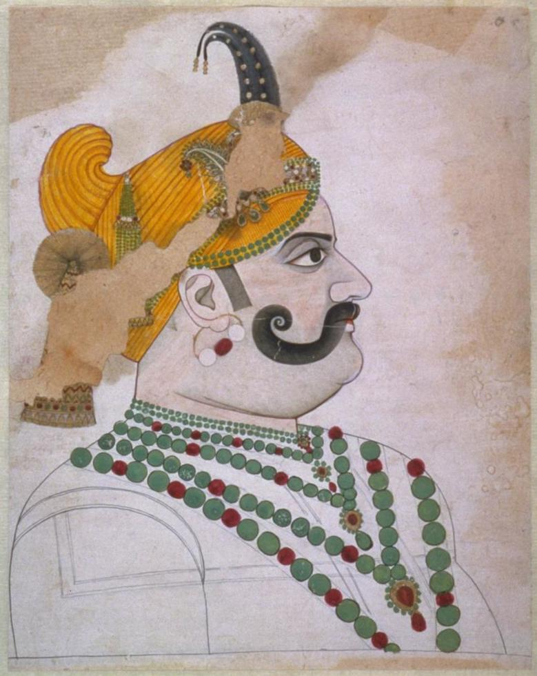 Maharaja Sawai Madho Singh of Jaipur 1760 Jaipur. San Francisco Museum of Art